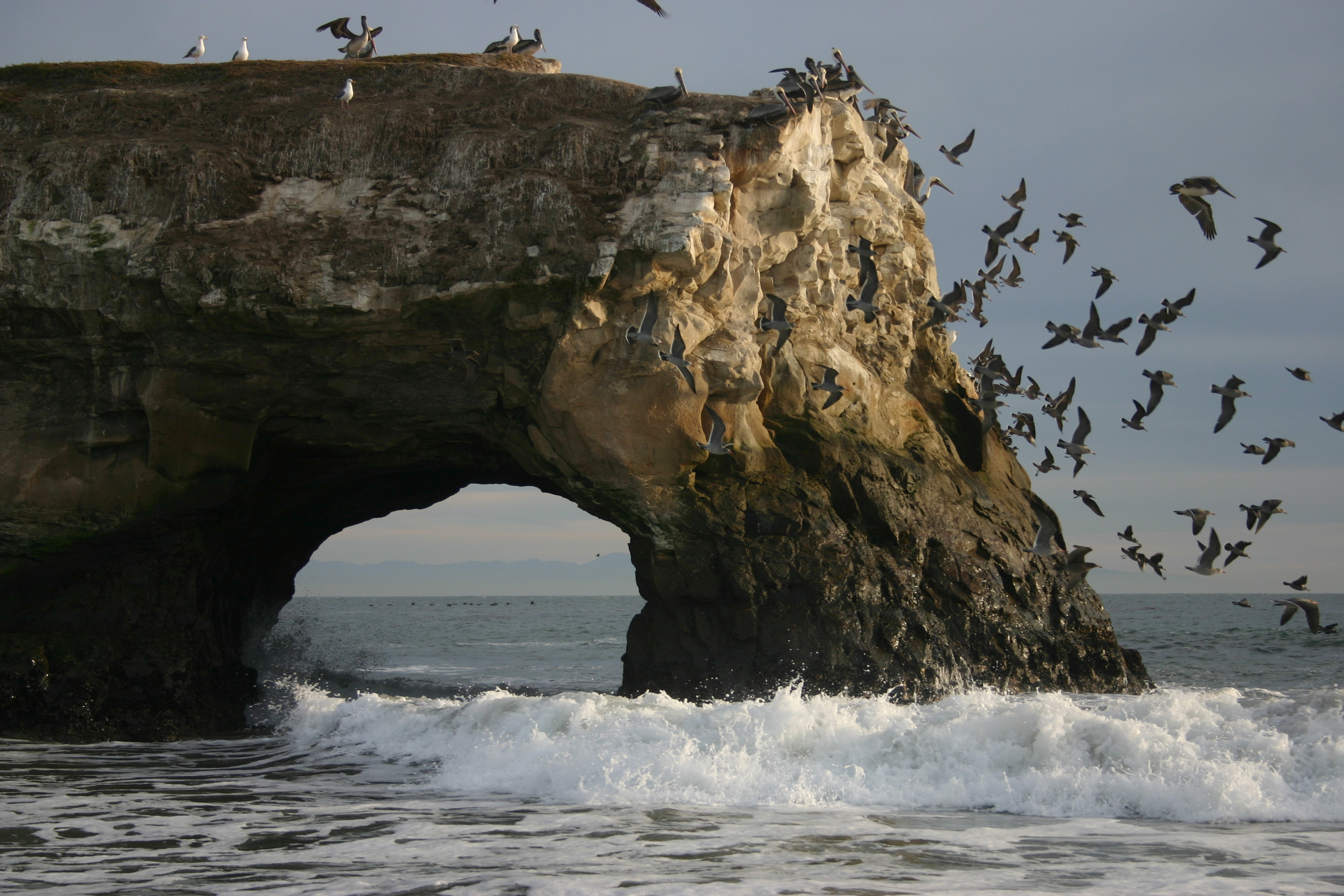 birds taking off from the last remaining natural bridge